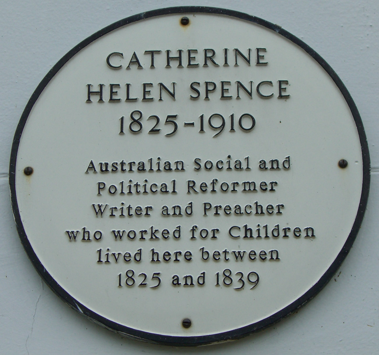 A plaque commemorating Catherine Helen Spence who lived the first fourteen years of her life in Melrose, Scotland. The plaque is attached to the Townhouse Hotel in Market Place, Miss Spence lived in a building which is now part of the hotel.